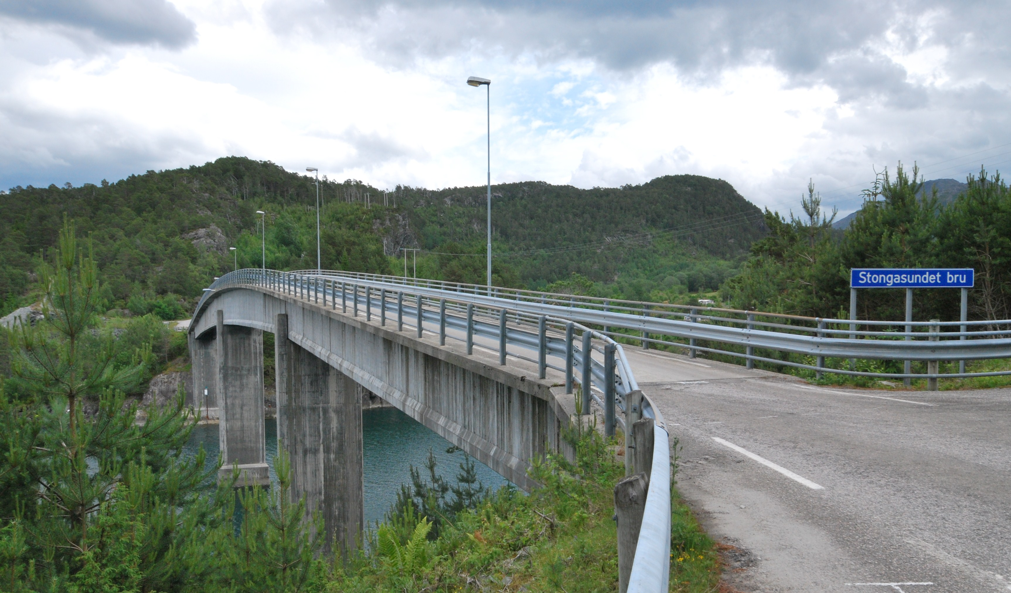 Stongasundet bridge (Norw. bru) to Stavøy island, Flora kommune, Sogn og Fjordane